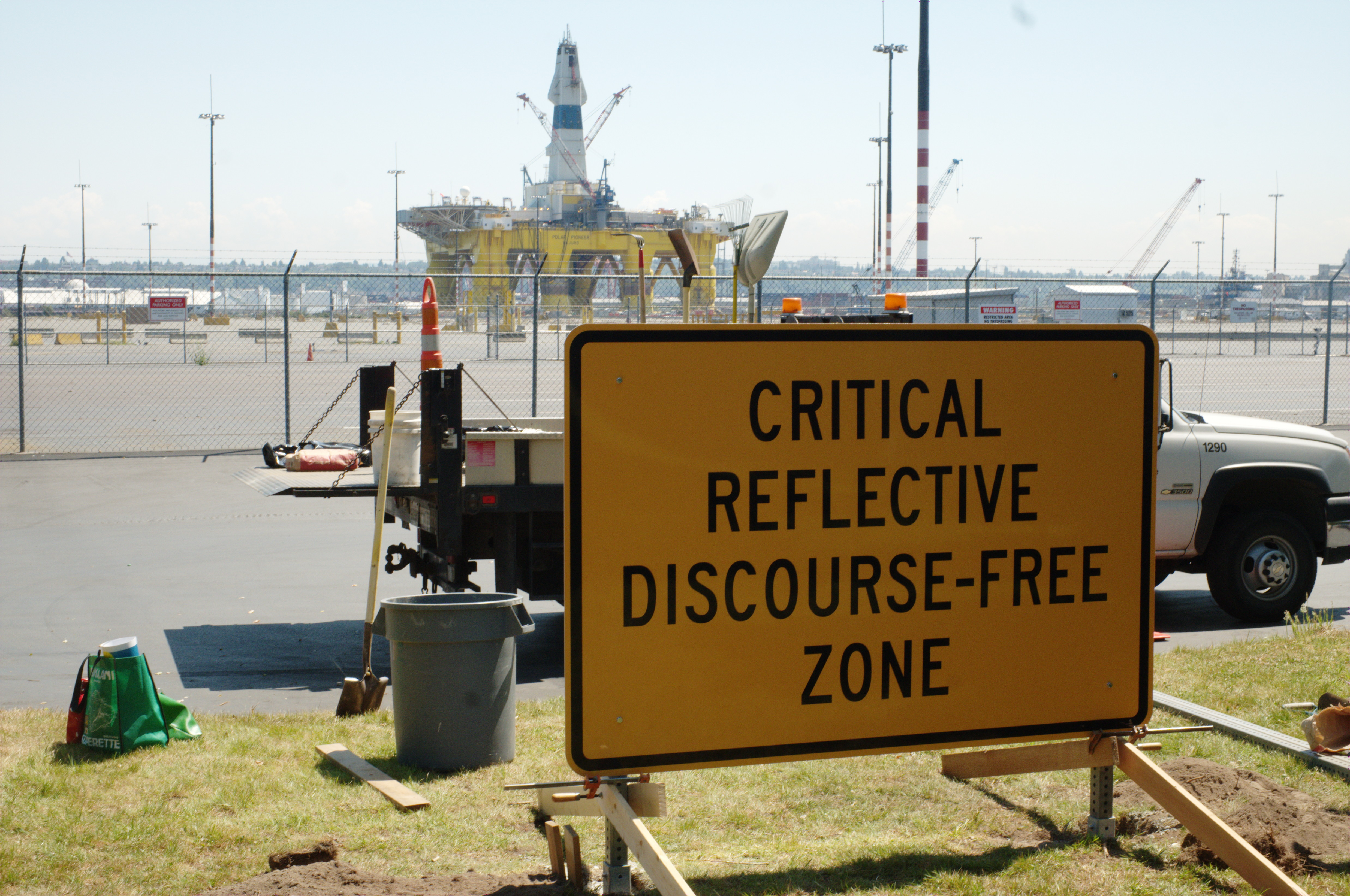 Satirical sign at Jack Block Park created by Jack Daws reading "Critical reflective discourse free zone" overlooking the Shell Polar Pioneer semi-submersible offshore drillship moored at Terminal 5 of the Port of Seattle, during the Seattle Arctic drilling protests.